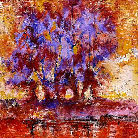 Trees at the river. Oil on canvas